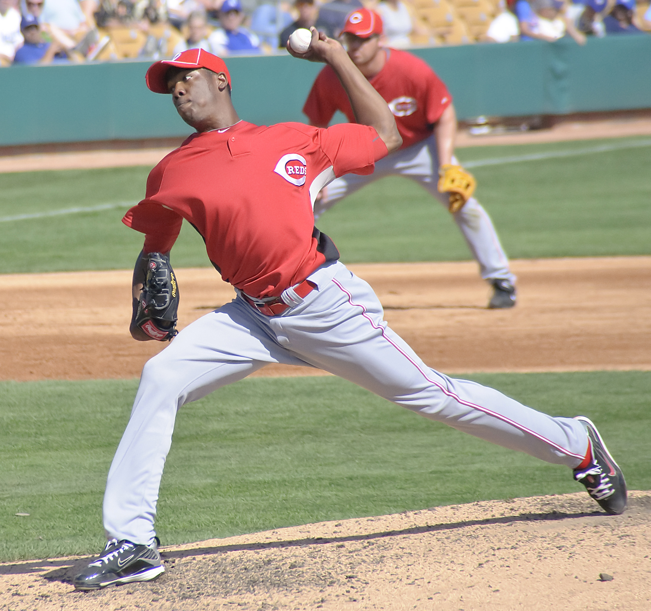 Aroldis Chapman